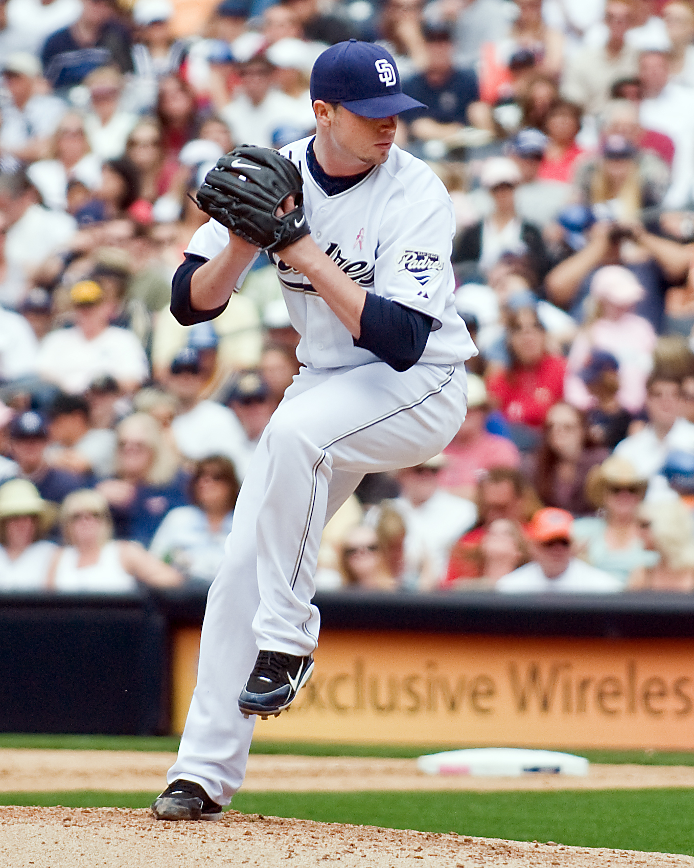 Cla Meredith